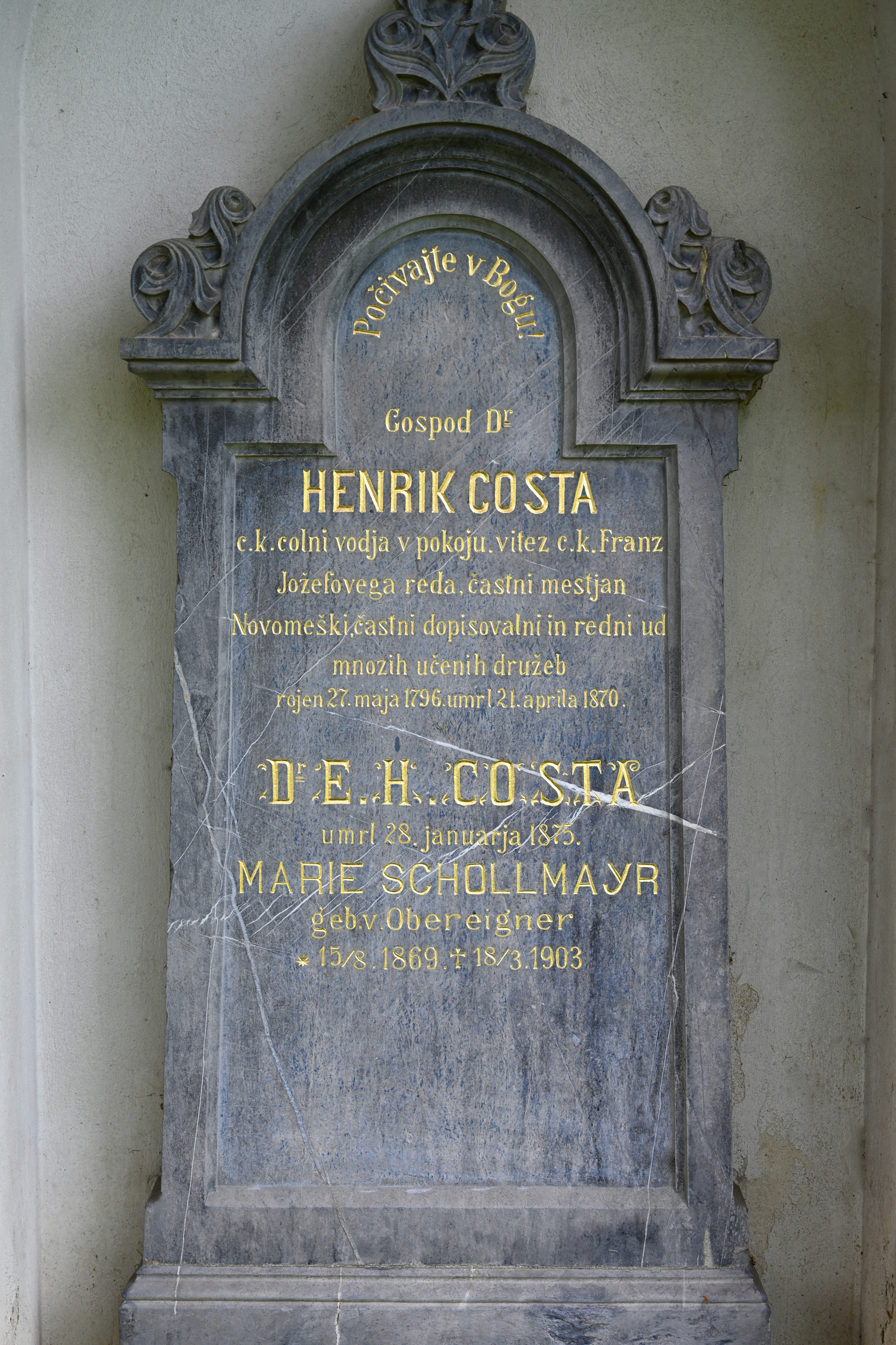 Tombstone of Henrik Costa (historian and author) and his son Etbin Henrik Costa (politician and mair of Ljubljana) in Navje, Ljubljana.